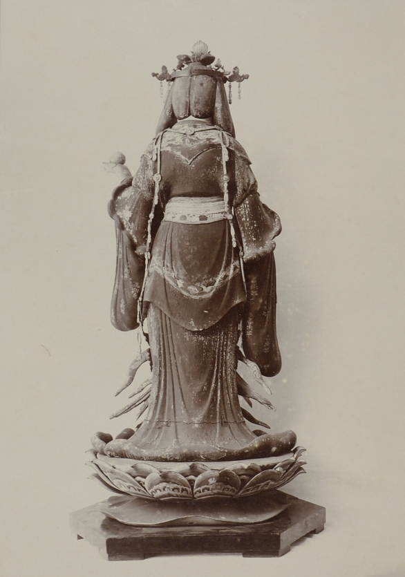 Kichijoten, Joruriji, Kizugawa, Kyoto, Japan